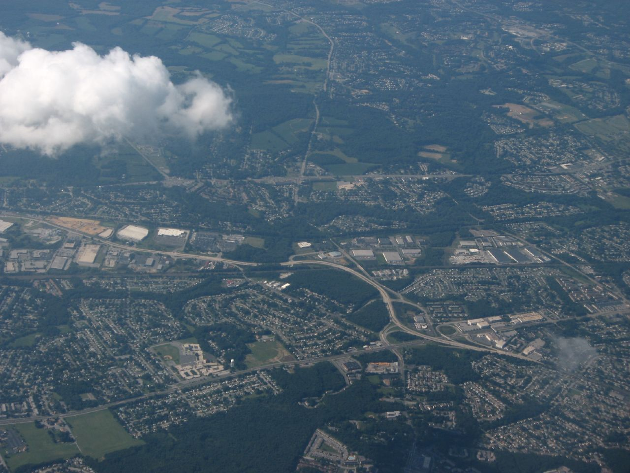 Ogletown is an unincorporated community in New Castle County, Delaware, United States. Ogletown is located at the junction of Delaware Route 4 and Delaware Route 273 3 miles (4.8 km) east of Newark.